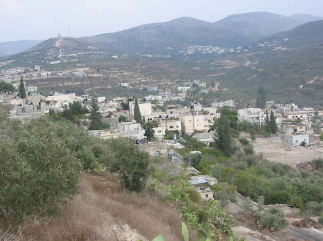 Picture of Sebastia village. Behind on the right is Ijnisinya